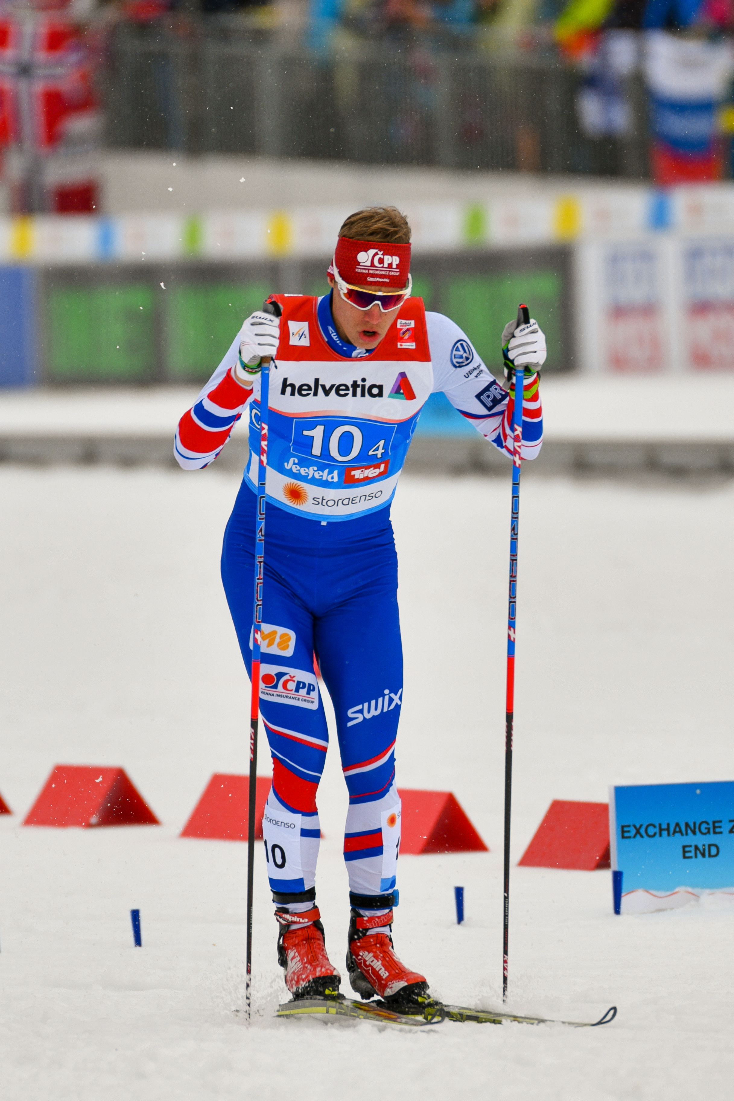 FIS Nordic Wolrd Ski Championships Seefeld 2019 - Men 4x10km Relay Classic/Free. Picture shows Petr Knop (CZE).